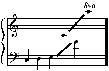 Carillon range